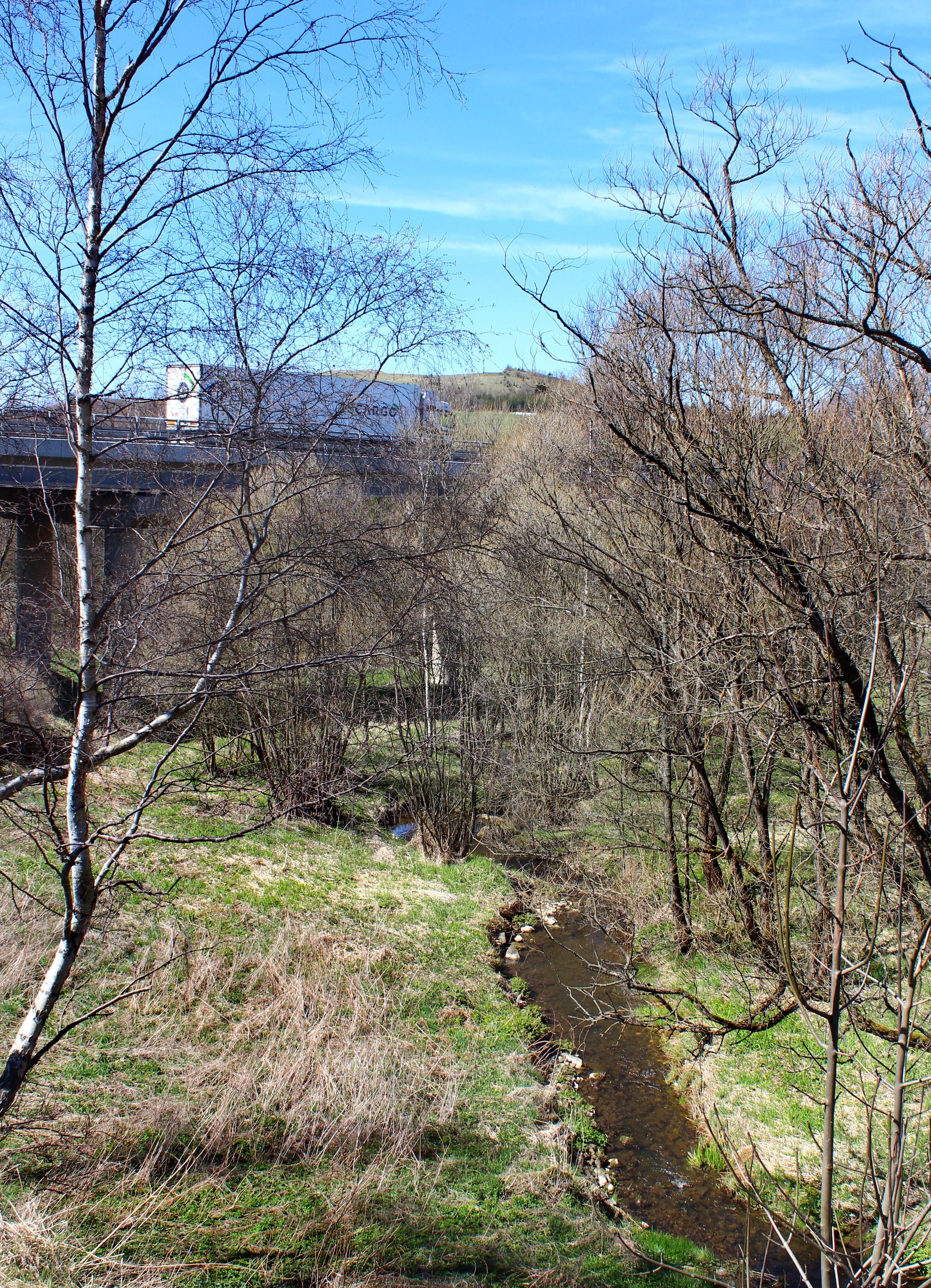 Lomnický Creek by Horní Tašovice, part of Stružná village, Czech Republic